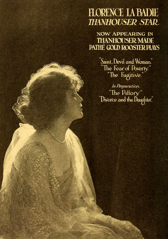 Advertisement in Moving Picture World